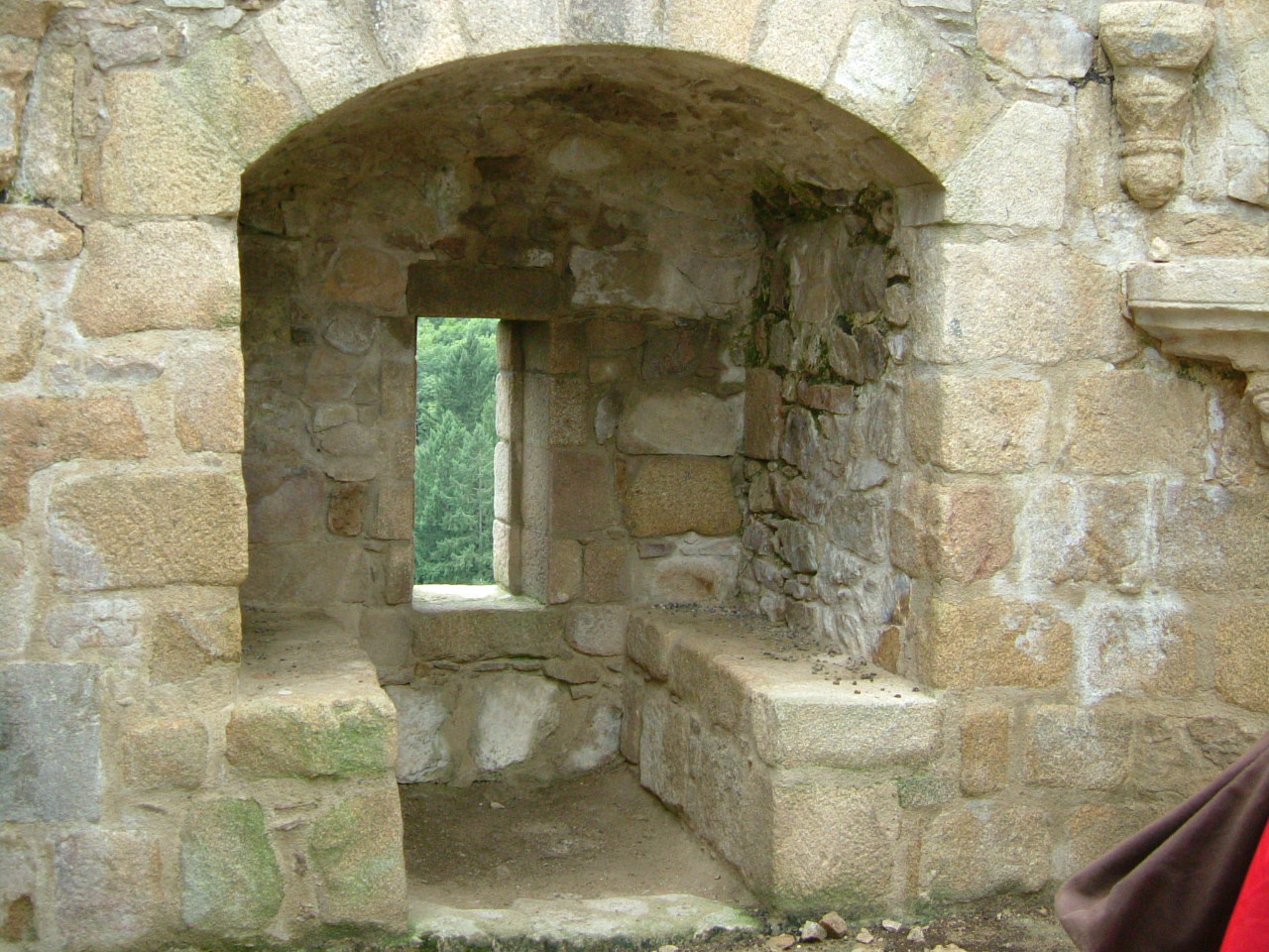 Crozant castle 22